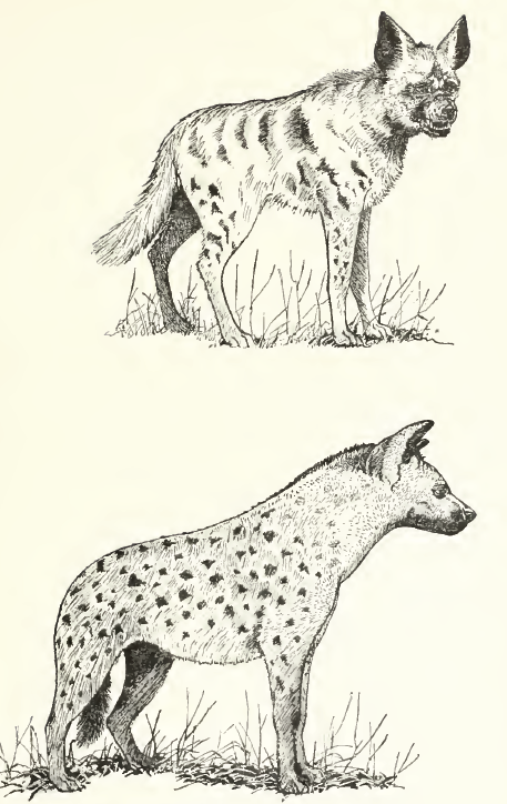 Comparative illustration of a spotted and striped hyena